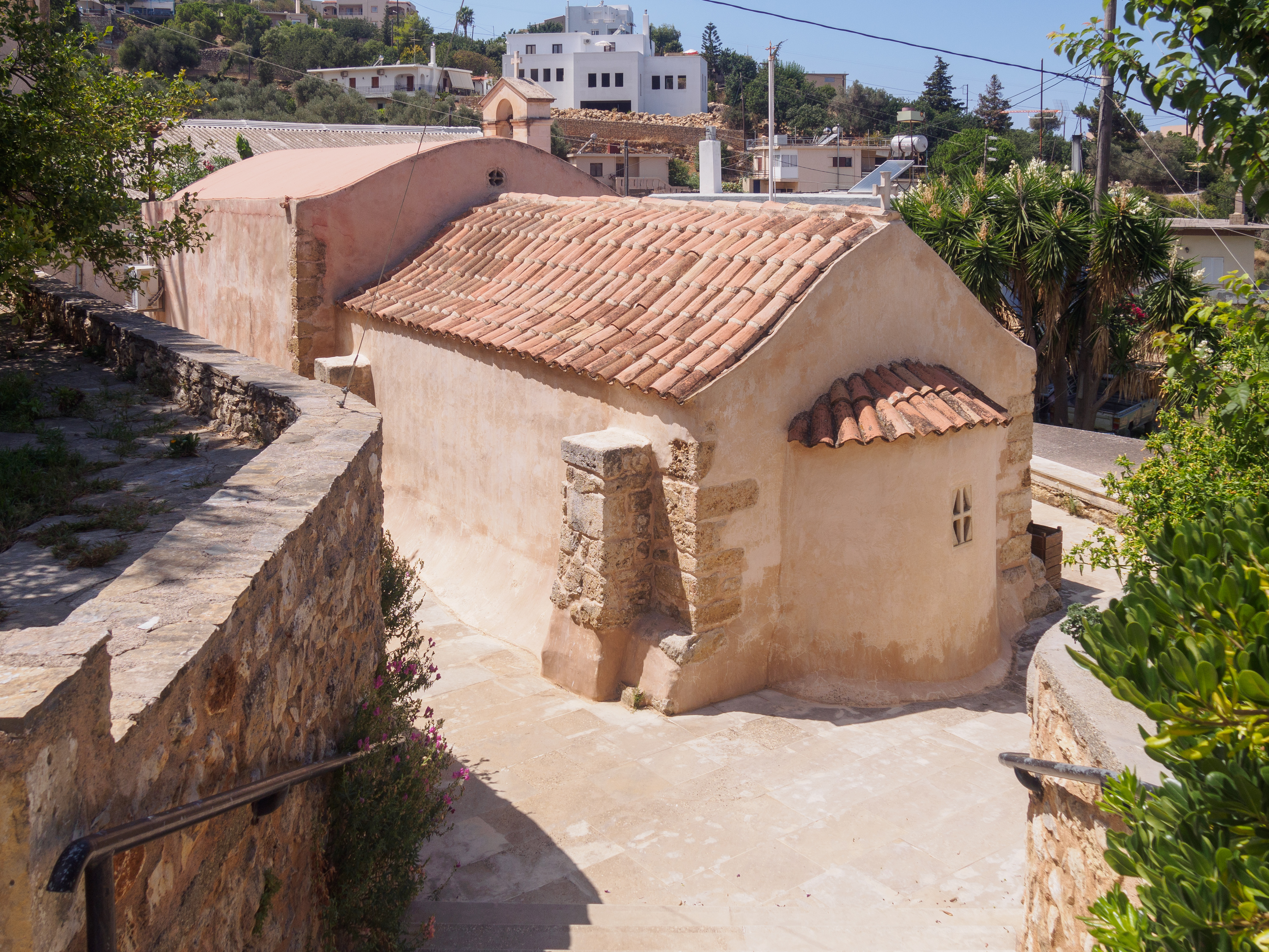 The 14th century church of the Dormition of Theotokos at Rousospiti, Crete.